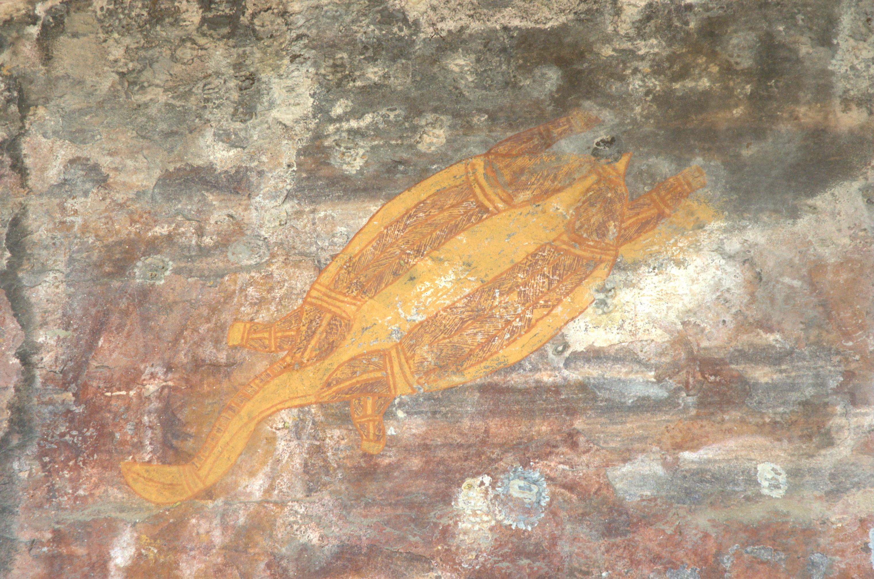 A rock painting of a turtle in what's known as X-ray style -- with some internal organs.